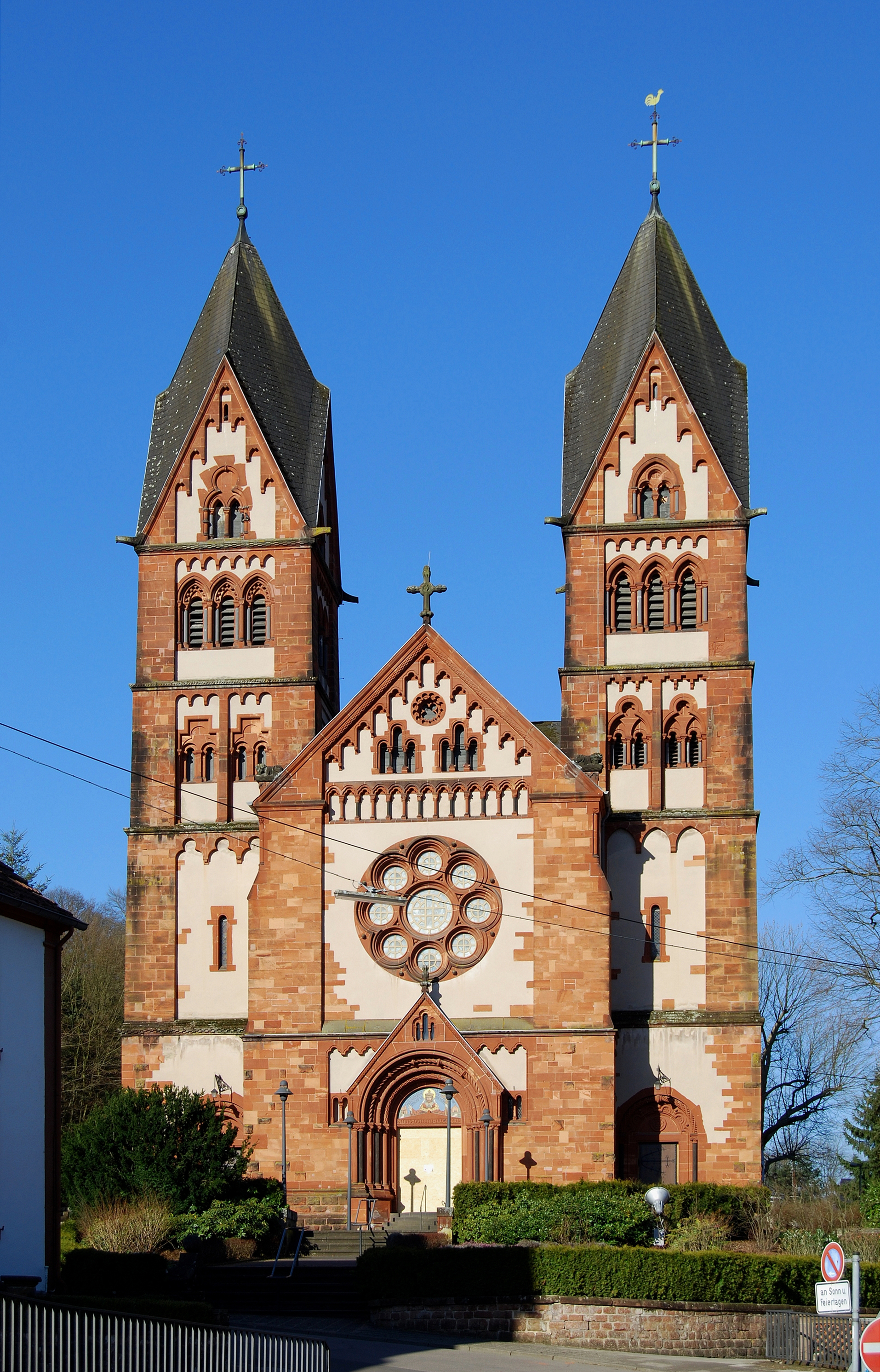 Church St. Lutwinus in Mettlach, Saarland.